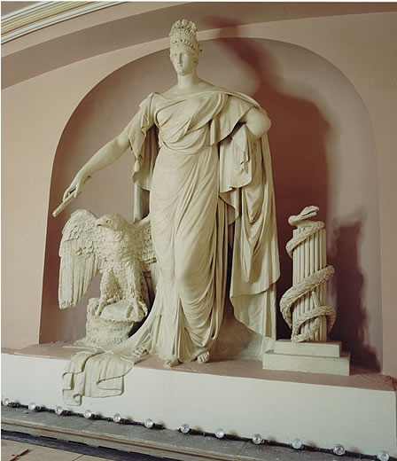 Liberty and Eagle, National Statuary Hall